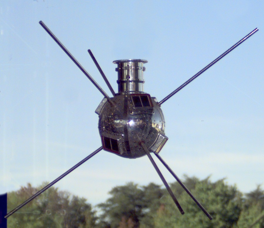 Model of Vanguard 1 satellite series. The satellite is shown inverted from the orientation it had during launch. The cylindrical object on top of the sphere is a launching adapter, secured to the satellite body with a metal strap. The metal band was released after the rocket achieved orbit, allowing the satellite to fly free of the adapter.